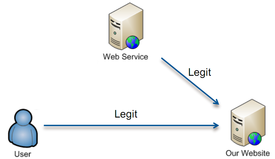 Usage of RDI technique Figure 1